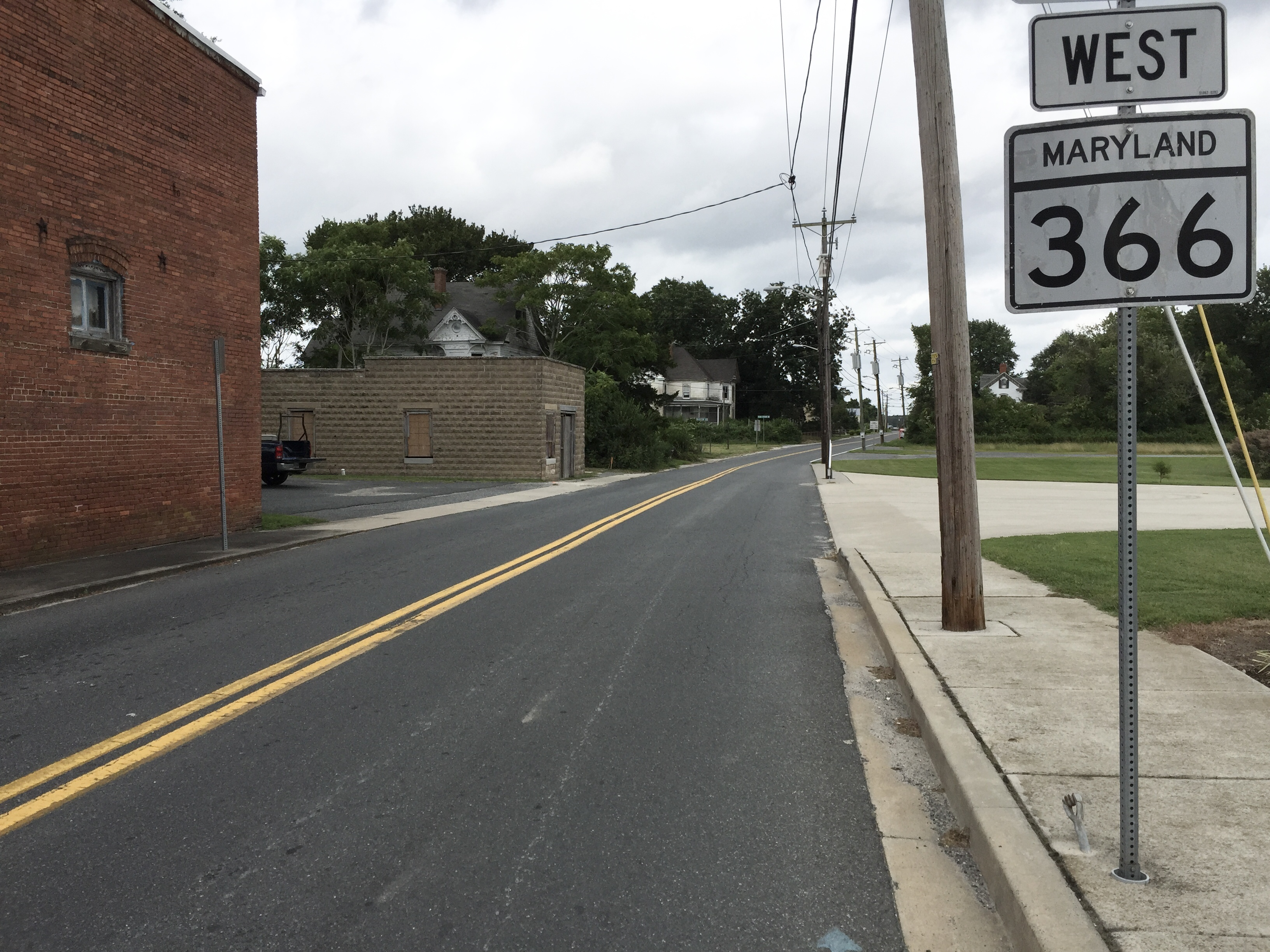 View west along Maryland State Route 366 (Stockton Road) at Maryland State Route 12 (Church Street) in Stockton, Worcester County, Maryland